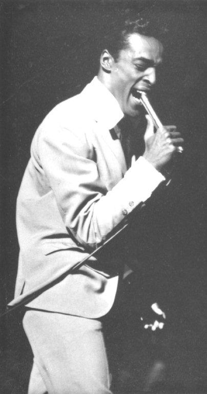 Tommy Hunt on stage